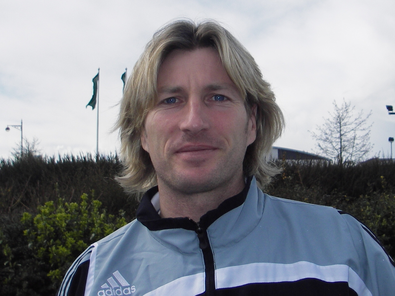 Robbie Savage, Welsh footballer